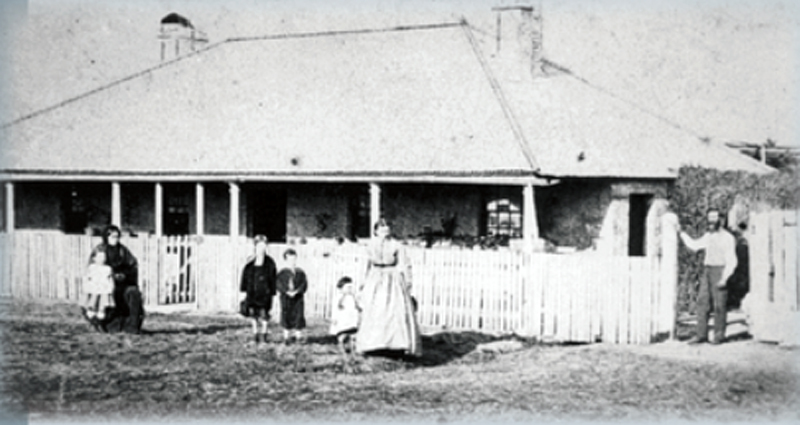 Dairy Cottage, Parramatta, New South Wales, 1870